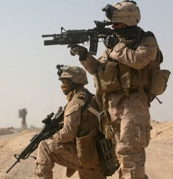 Cpl Jason Ducote with Lcpl Jacob Cooper on the outskirts of Marjah during Operation Moshtarak, Feb 14 2010